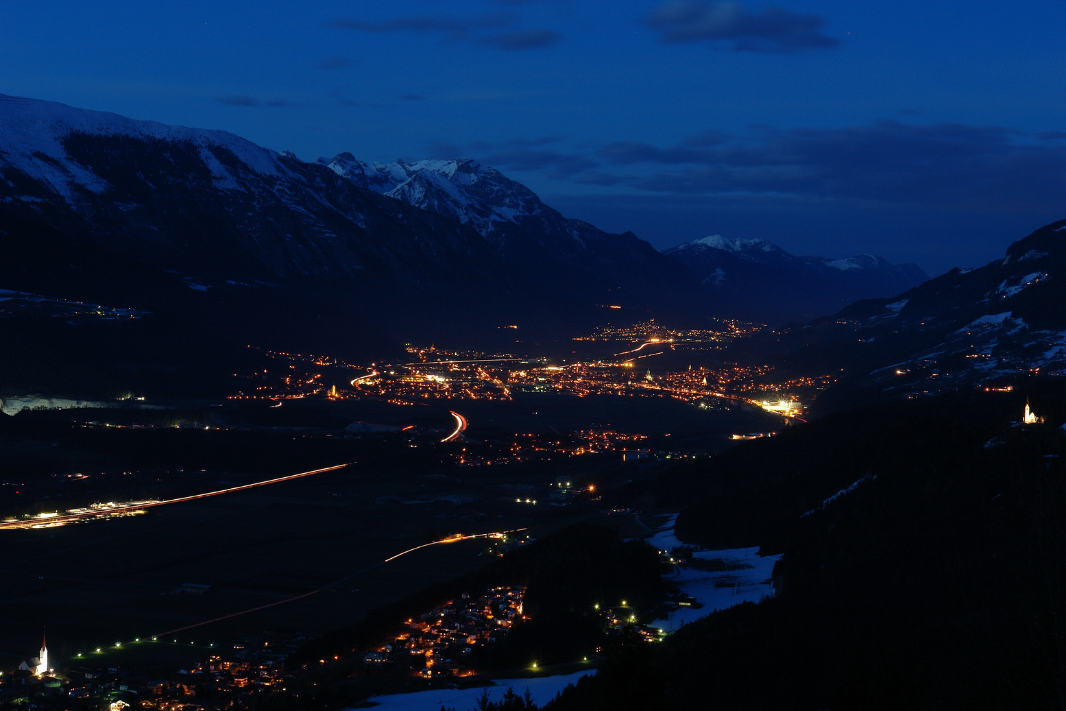 City Schwaz at Night